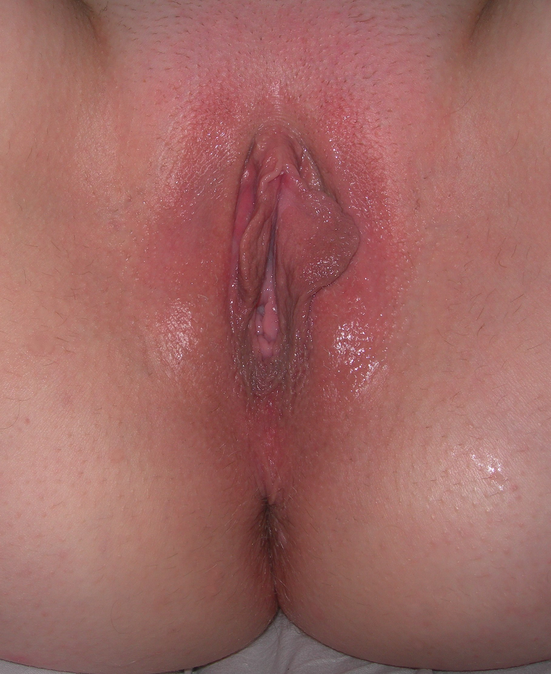 labia minora and labia majora of caucasian women